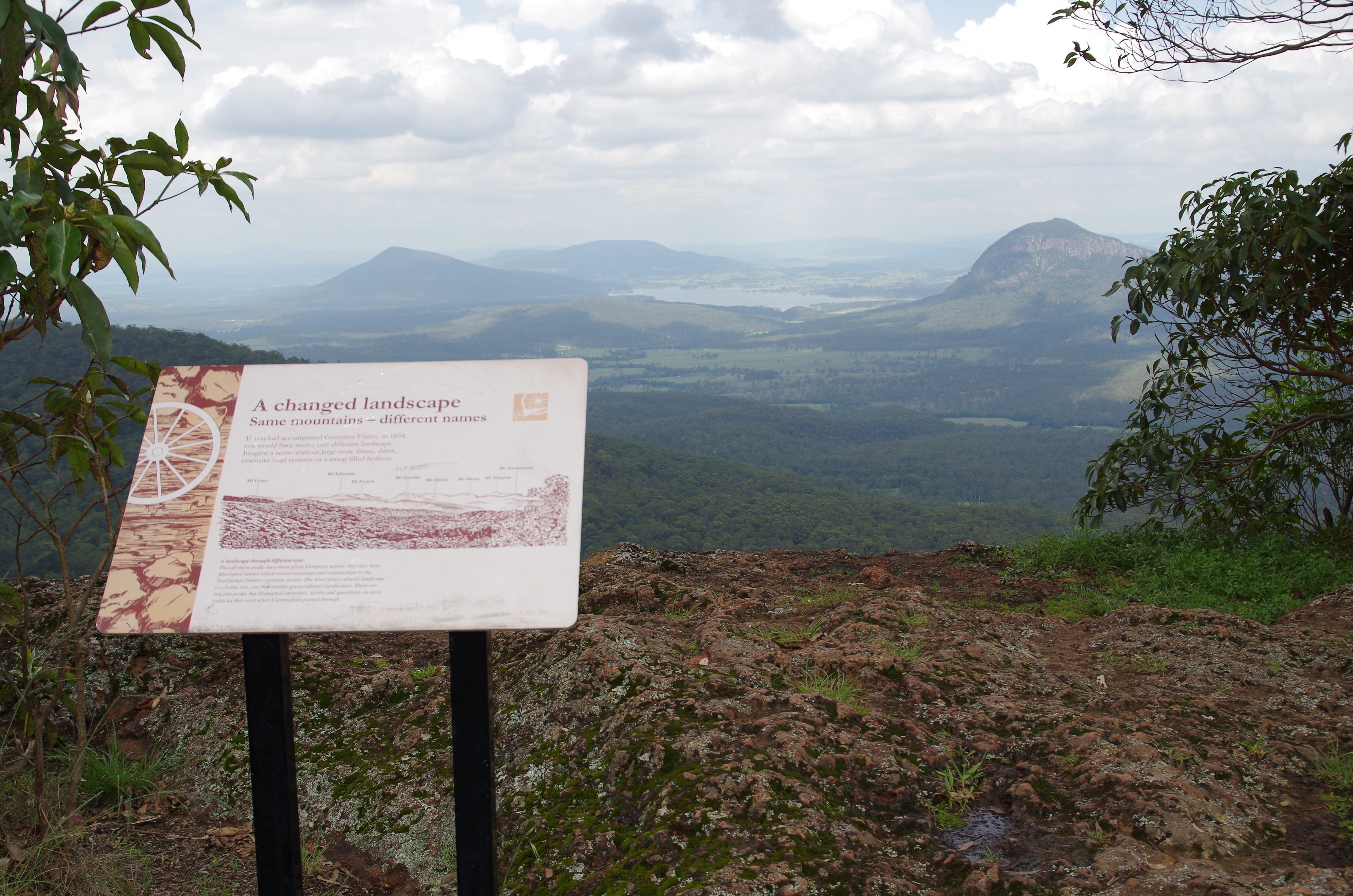 The view from the Grosvenor's Chair Lookout at the top of the Spicers Gap Road Conservation Park within Main Range National Park, Southern Downs, Queensland.